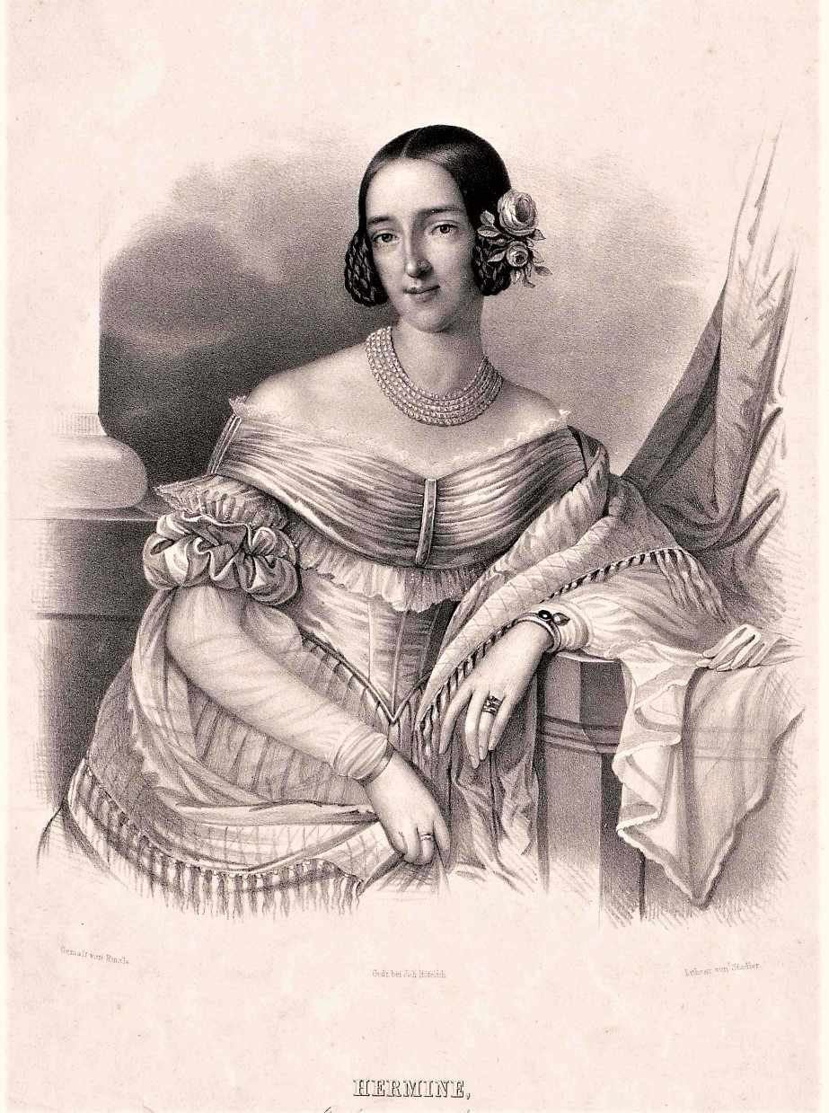 Archduchess Hermine of Austria (1817-1842)